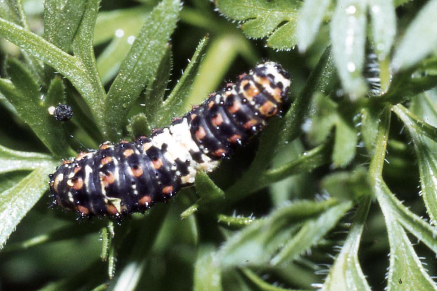 Old World Swallowtail (Papilio machaon) caterpillar